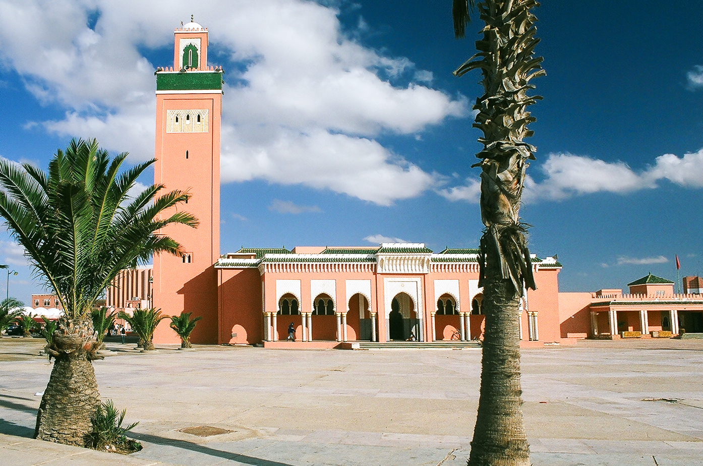 Mosque Moulay Abd el Aziz in El Aaiún, Morocco